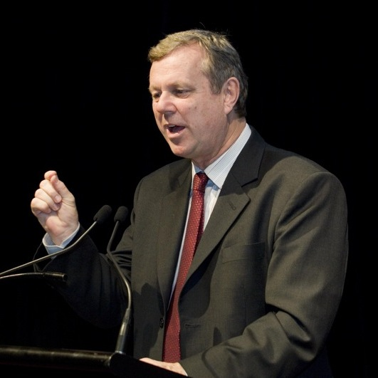 Mike Rann, South Australian MP since 1985, state Labor leader since 1994, and Premier of South Australia since 2002.